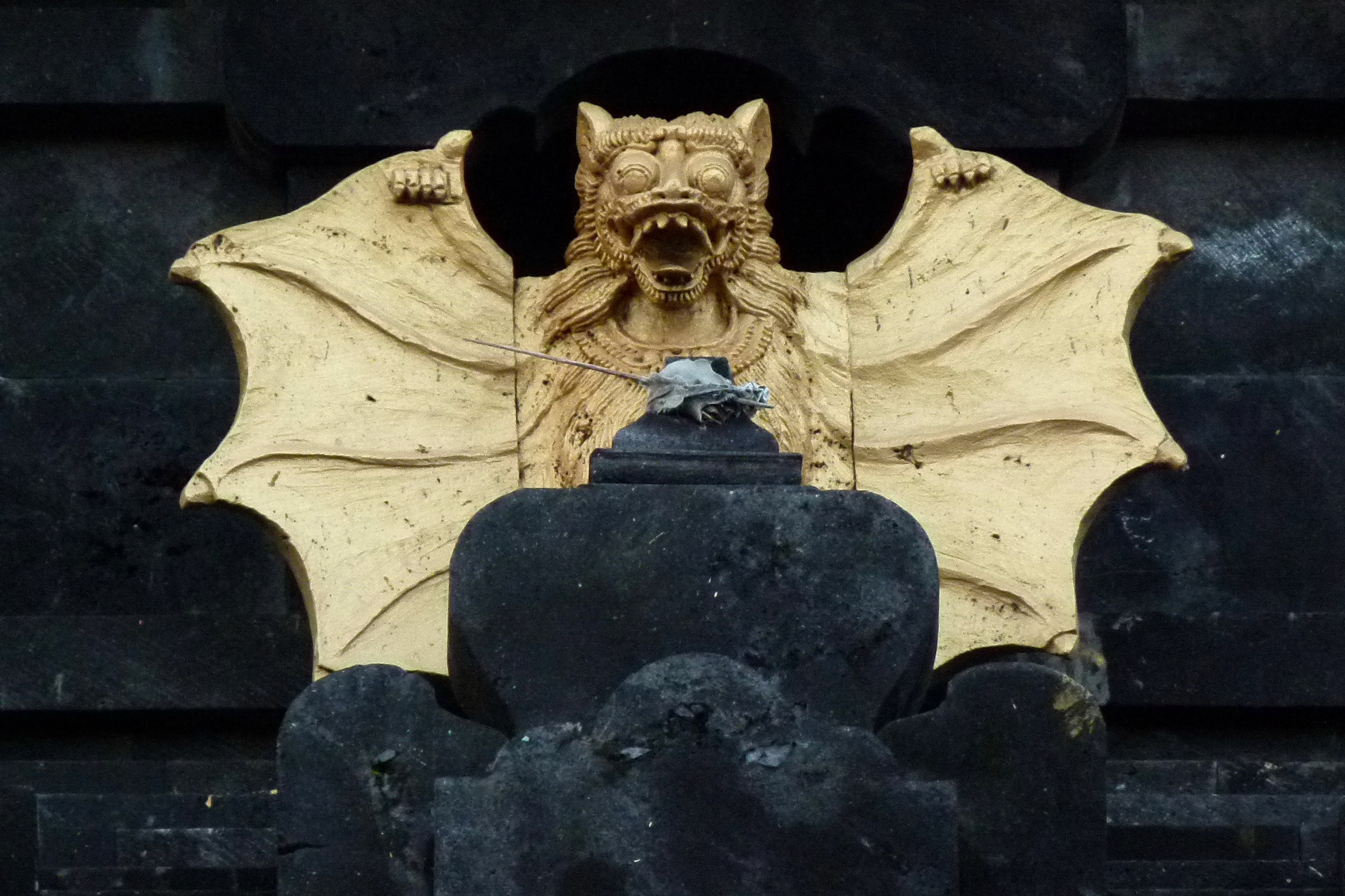 Golden bat at Goa Lawah (Bat cave) in Bali